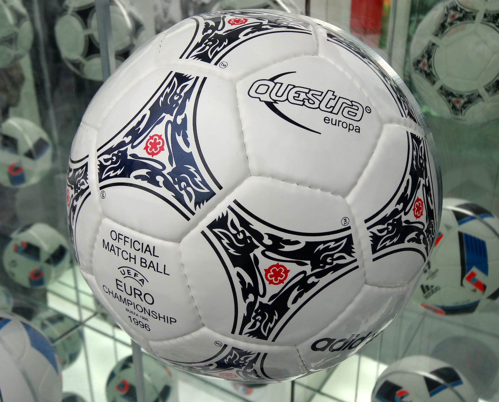 Euro 1996 ball